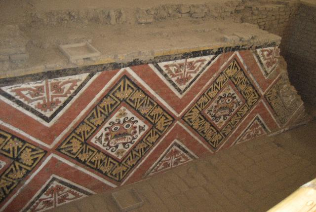 Pictures of Ai-Apaec in the "huaca de la Luna". La Libertad, Peru.